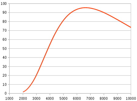 On the x-axis, colour temperature in kelvin. On the y-axis, light efficiency in lumens per watt